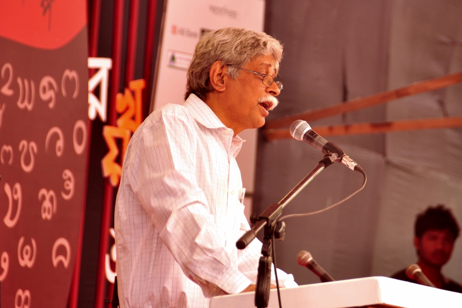 Muhammed Zafar Iqbal giving speech at "Borno Mela" (fair of letters) hosted by leading Bangla daily the Prothom Alo at Sultana Kamal Mohila Krira Complex, Dhanmondi, Dhaka.